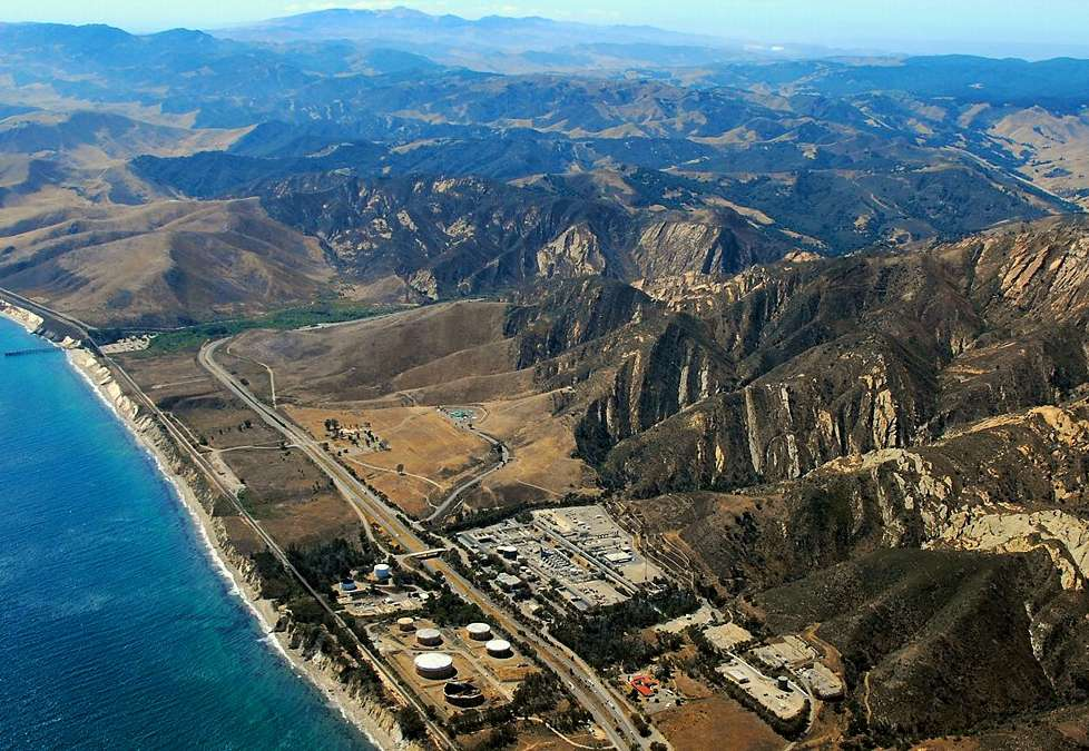 Aerial photo of Gaviota, including the oil installation and much of Gaviota State Park — located west of Goleta in Santa Barbara County, California.